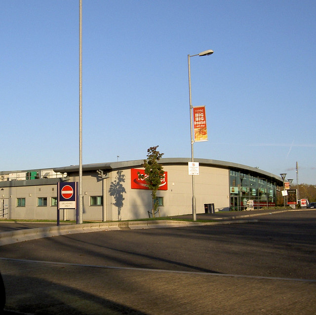 Road Chef north junction 15a M1